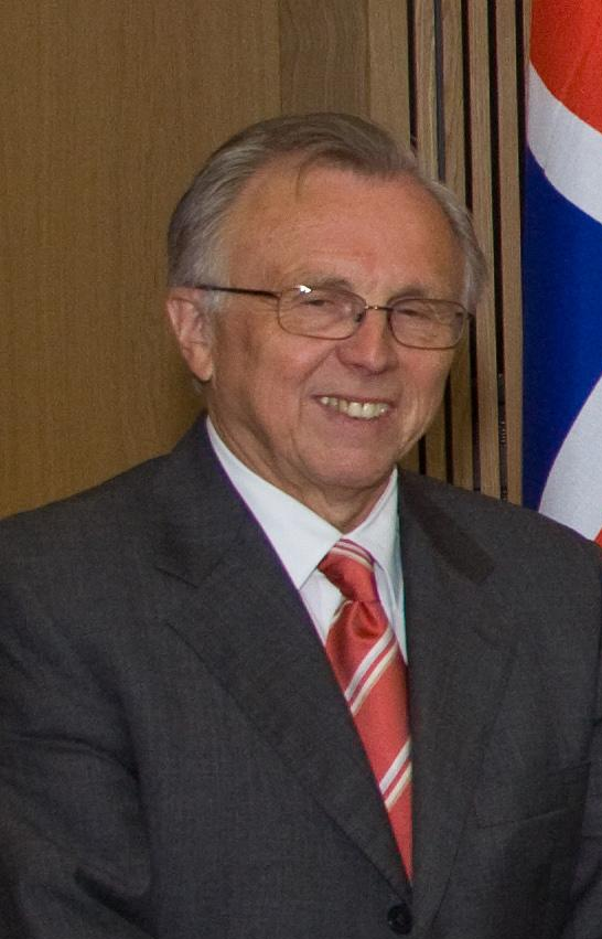 Mr Kåre Bryn, EFTA Secretary-General (Photo: EFTA)